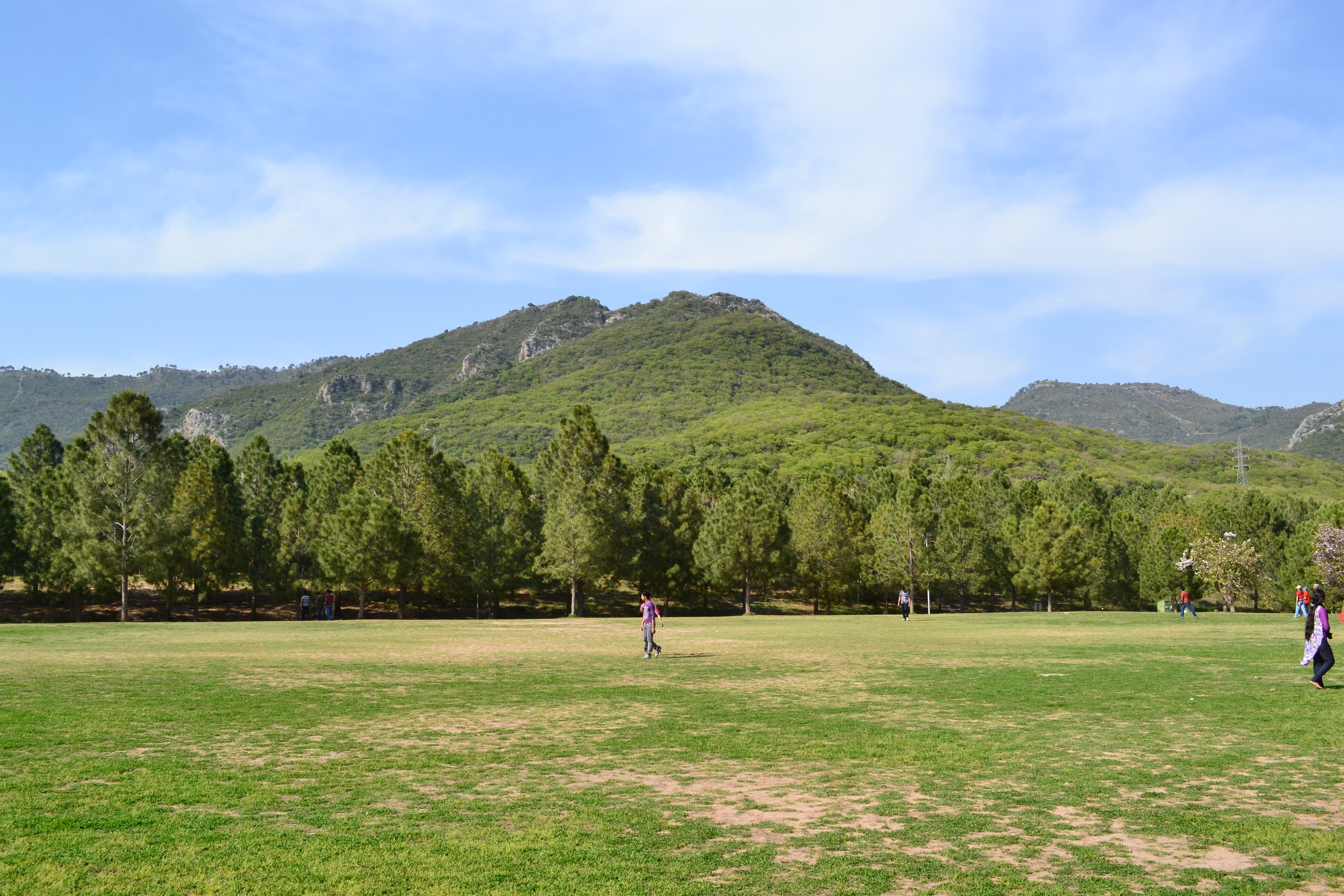 Nekka Phullai is the adjoining hill beside Faisal Mosque